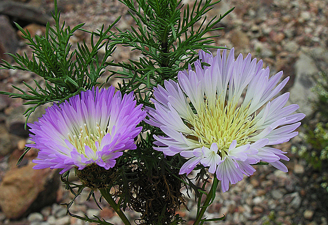 In the center and 'Norte Chico" of Chile, this lovely flower is known as the Flor de Minero. In context at